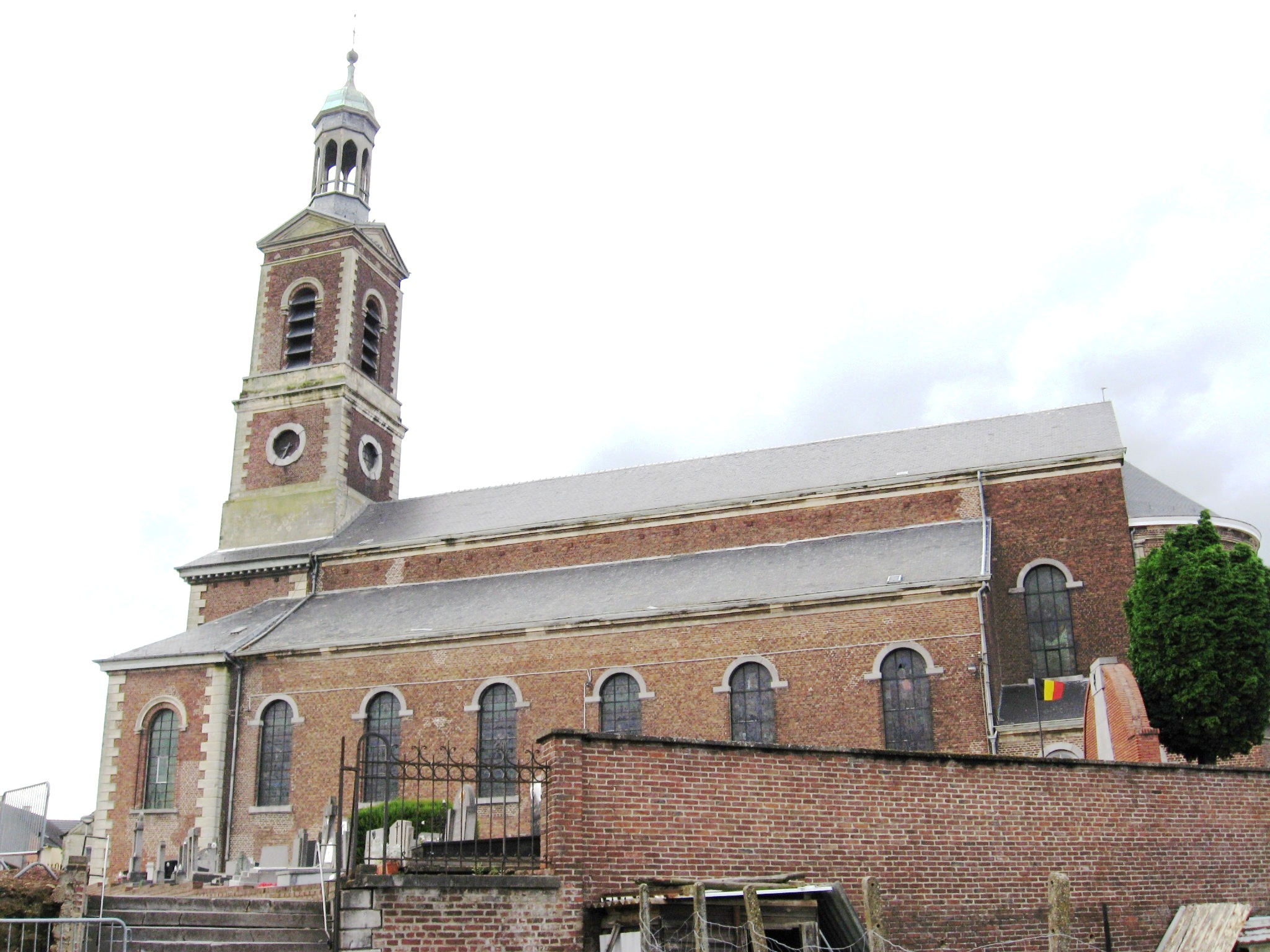 Church of Saint Alban in Vlijtingen, Riemst, Limburg, Belgium